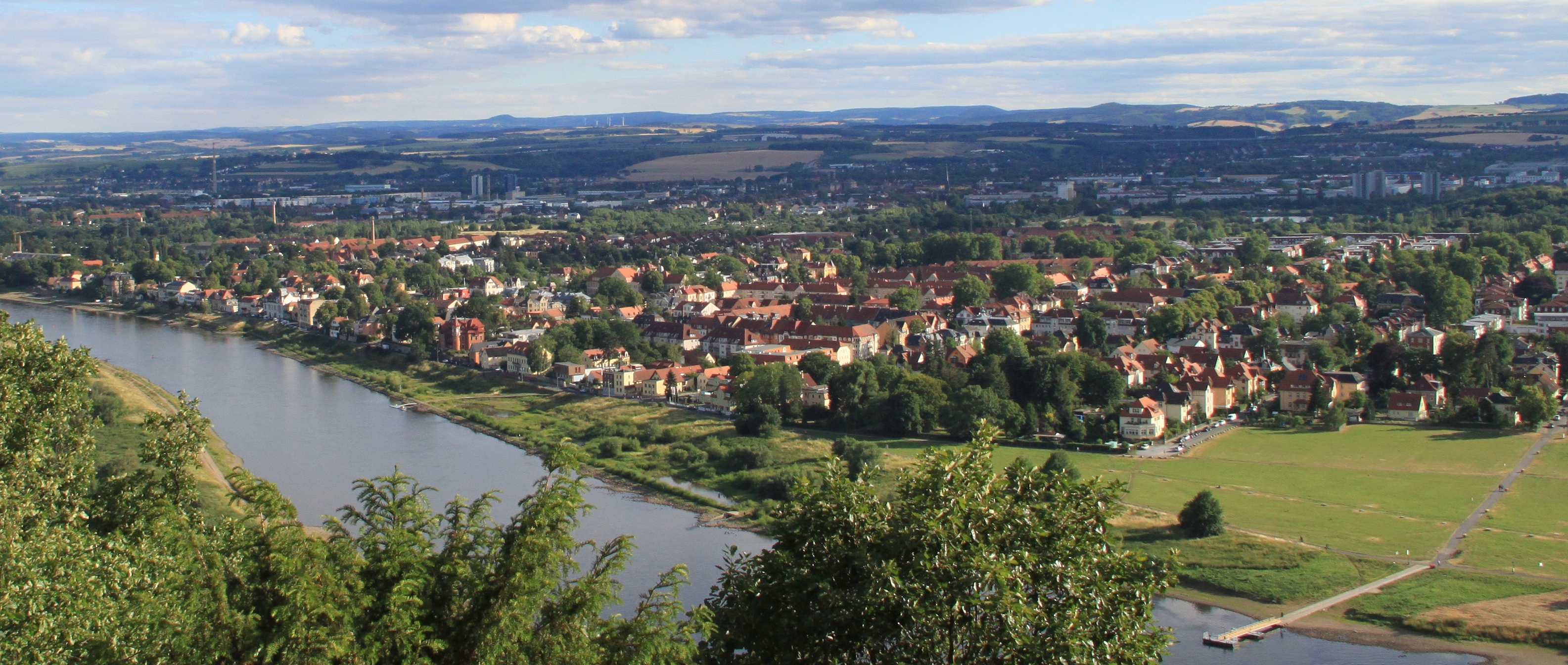 View of Laubegast, a part of Dresden